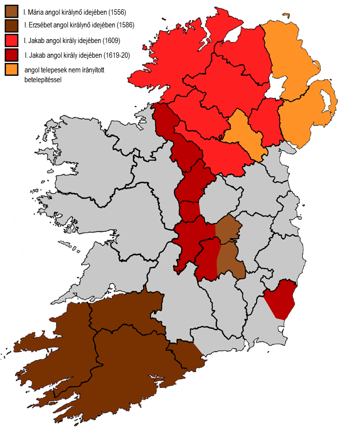 This map highlighting the areas subjected to British plantations in Ireland. Although the plantations in Munster did not cover the entire shaded area, it has been simplified for the purposes of this map. Modern county boundaries are also shown.